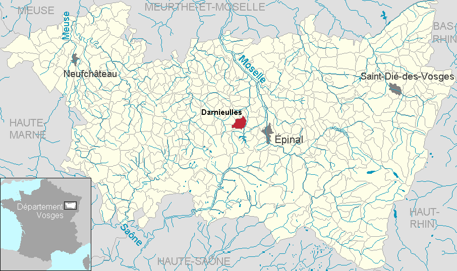 Darnieulles in the department of Vosges, Lorraine, France